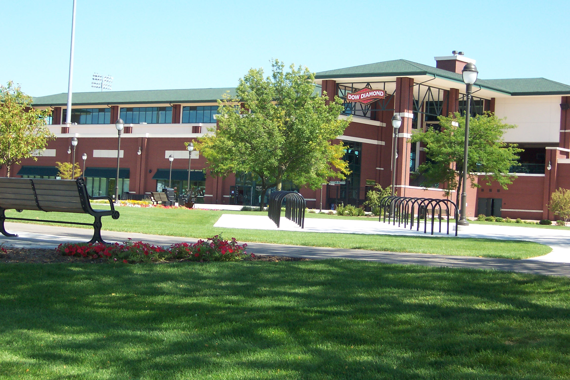 Picture created for this article 02:58, 4 September 2008 . . Mgreason . . 2,304×1,536 (1.07 MB)